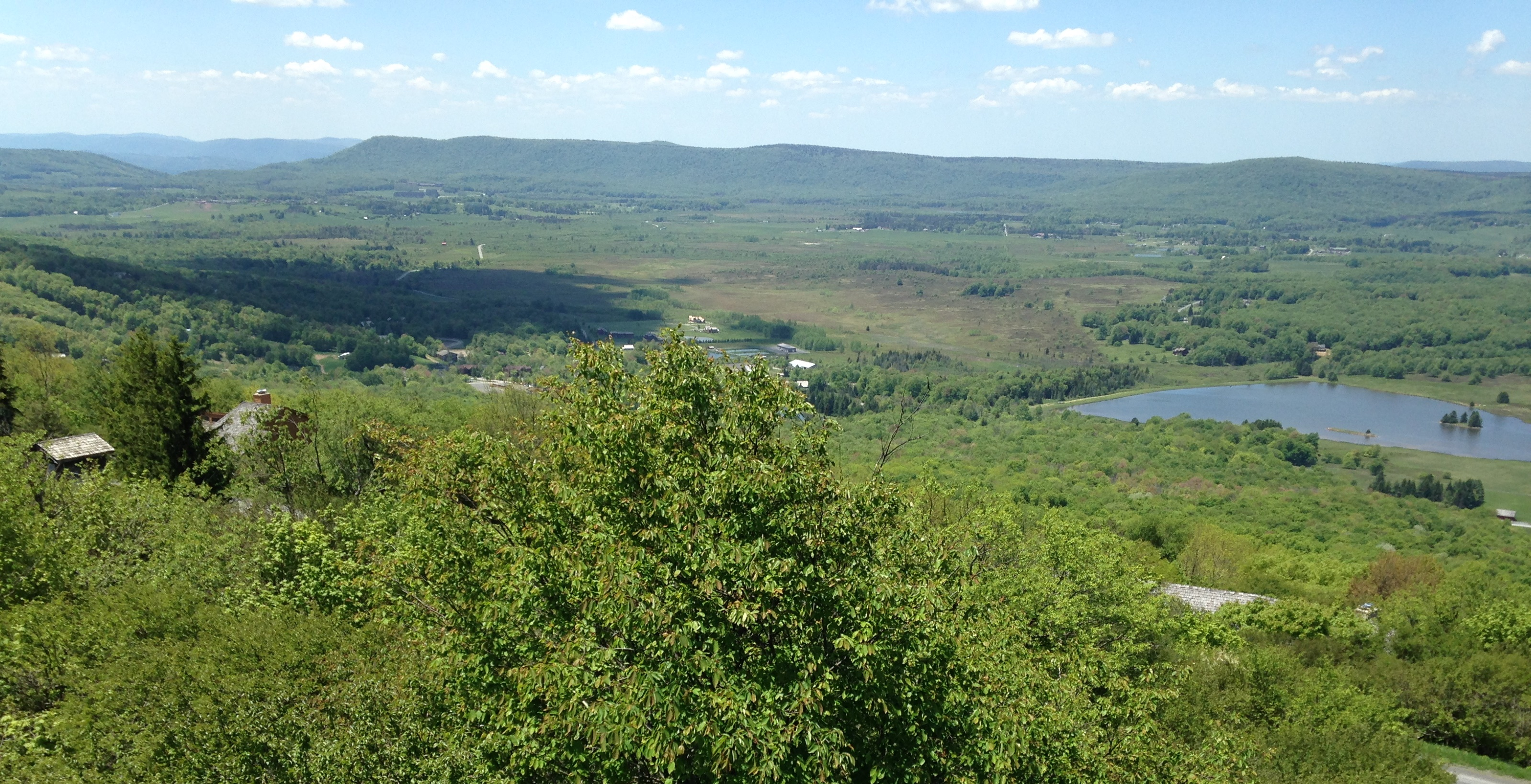 The southern end of Canaan Valley, Tucker County, West Virginia, USA. Photo taken from atop Harmon Knob.